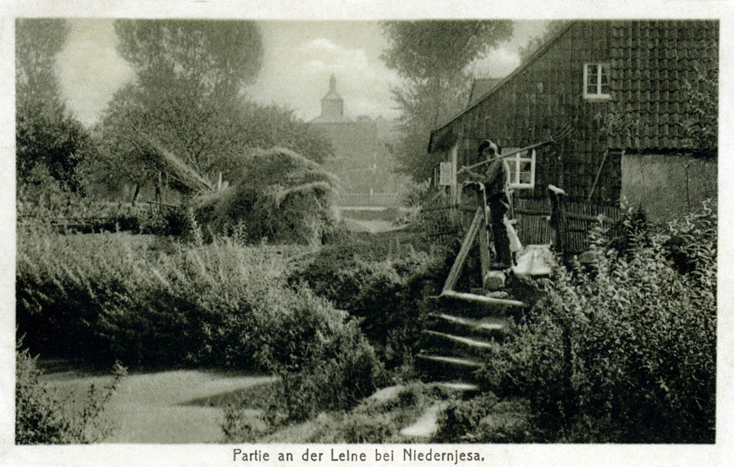 Farmer and his farmhous in the year 1910 in Niedernjesa near Göttingen in Lower Saxony, Germany.